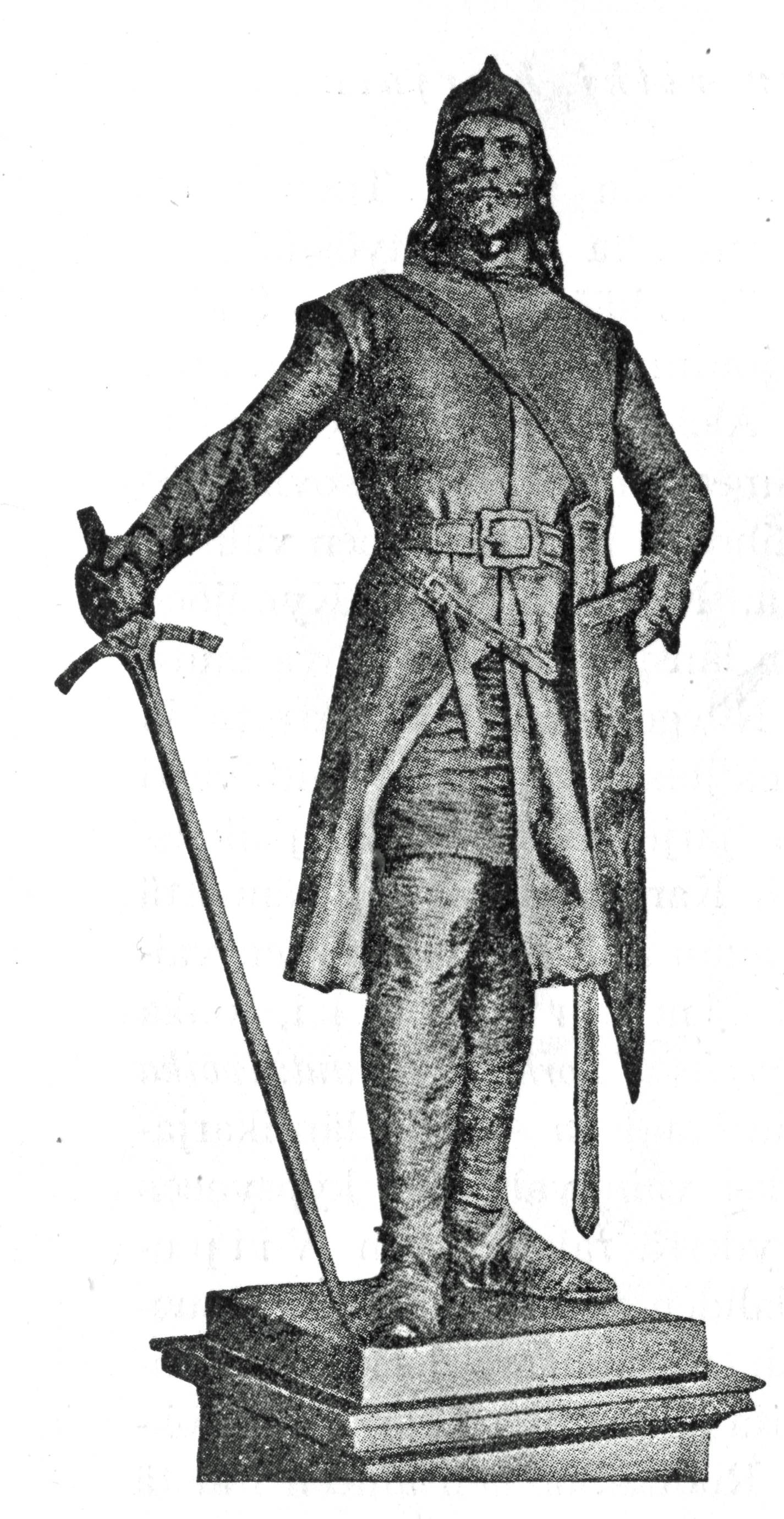 Torgils Knutsson, statue in Vyborg.